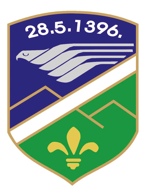 Coat of arms of Tutin, Serbia/Blason de la ville de Tutin en Serbie